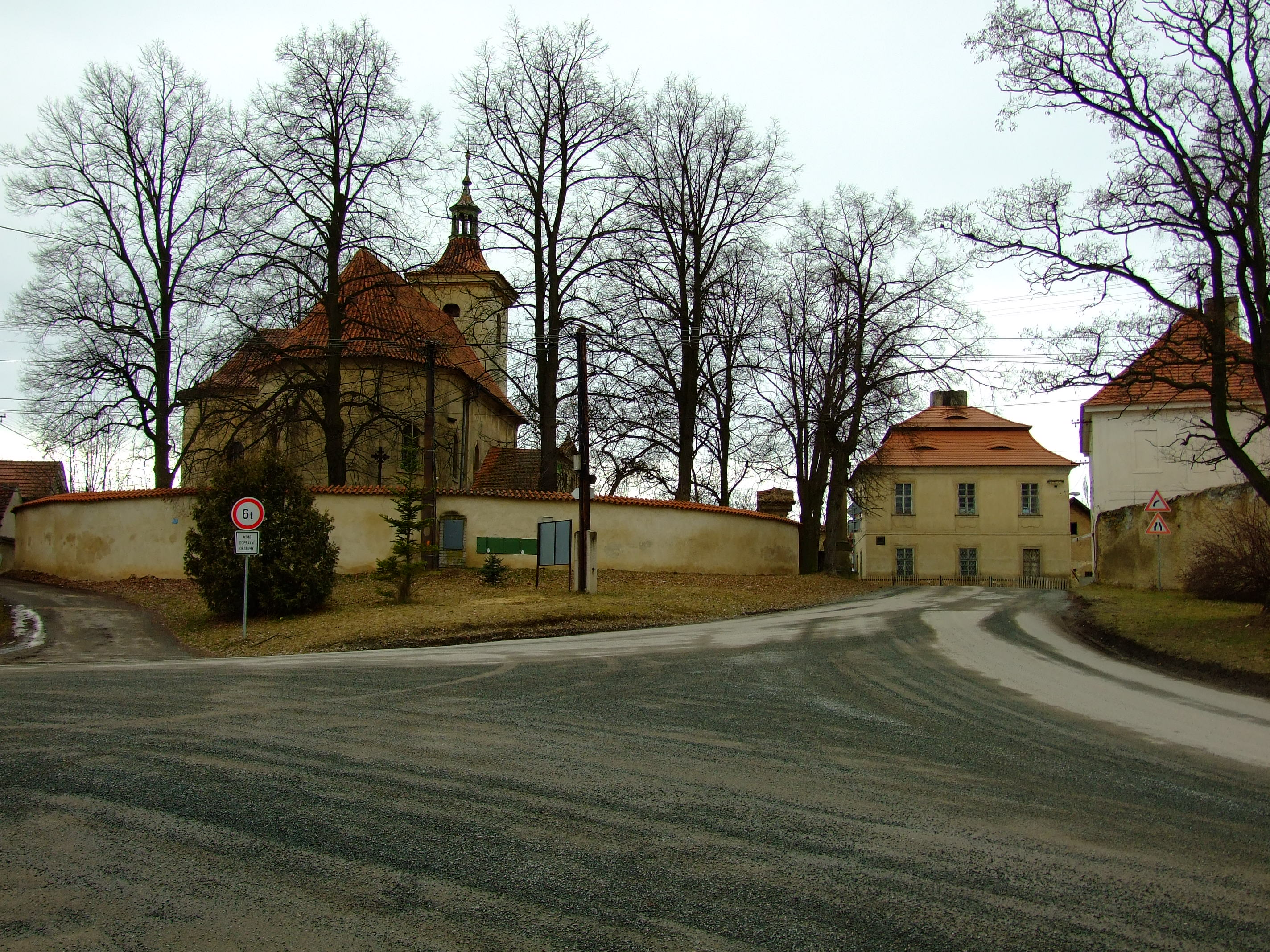 Village of Svárov in Kladno District, Central Bohemian Region, Czech Republic. St. Luke Church.help